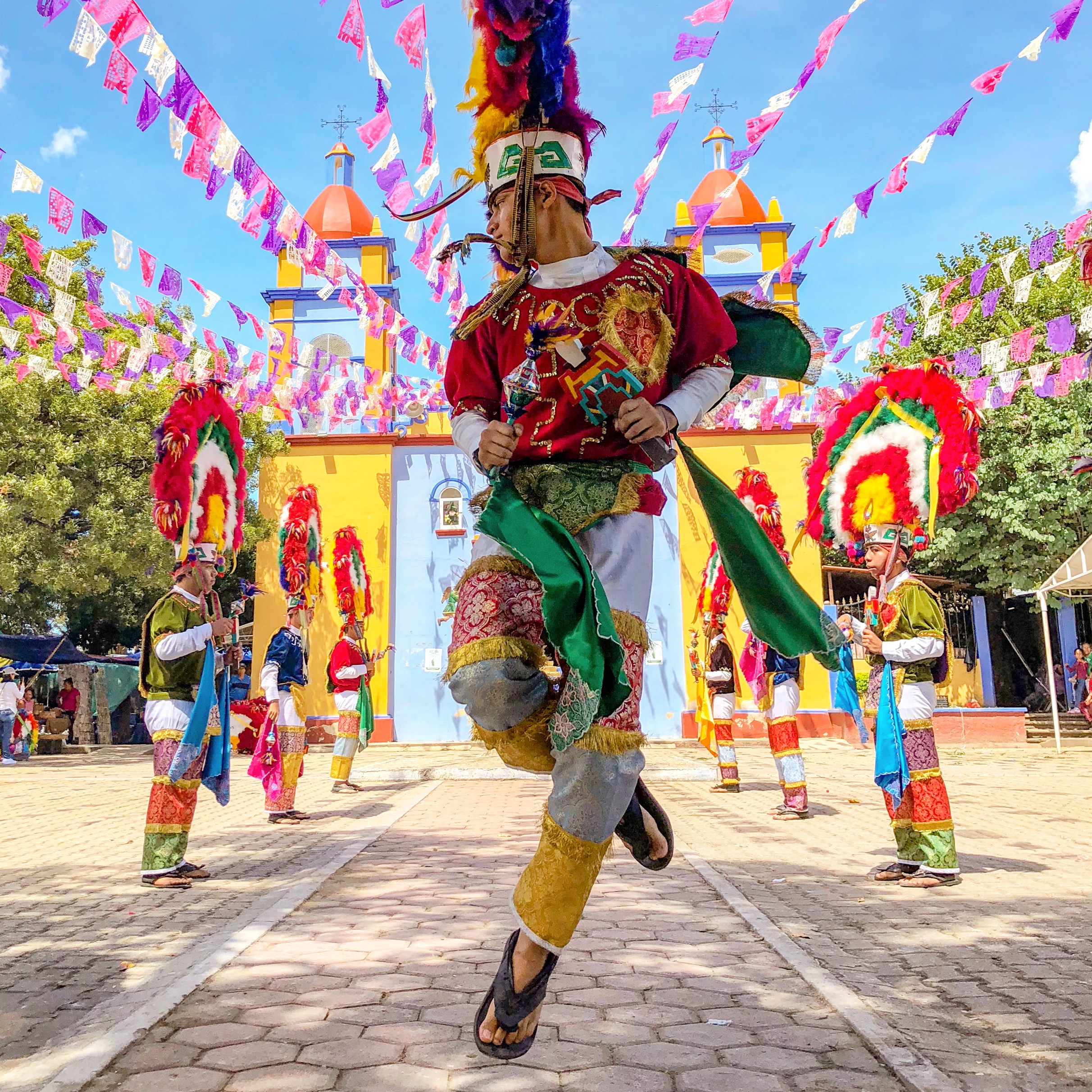 La danza de la pluma es una danza muy representativa de los valles centrales de Oaxaca. Es una Danza que representa la conquista española y que ahora se sigue bailando en la diferentes celebraciones. This photo has been taken in the country: Mexico